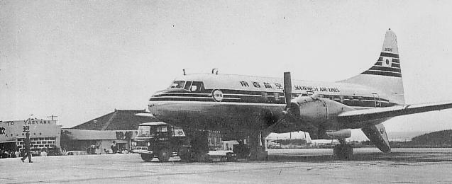 Southwest Airlines aircraft